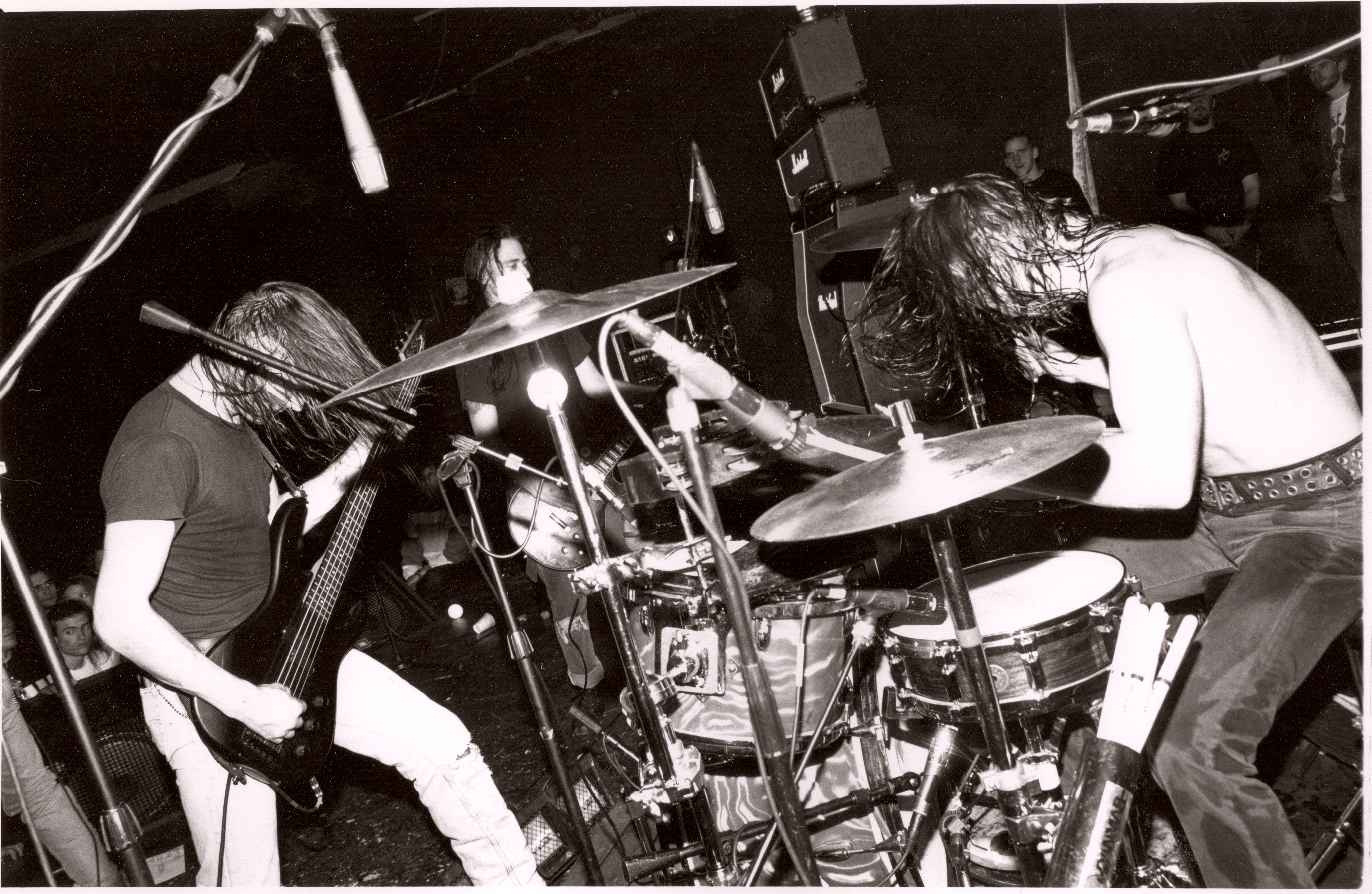 the band playing at Under the Rail in Seatte